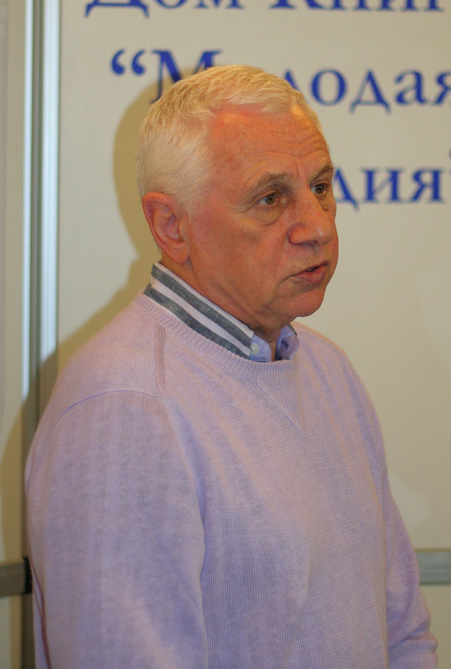 Edward Topol, a Russian writer, authographing his books in Moscow.